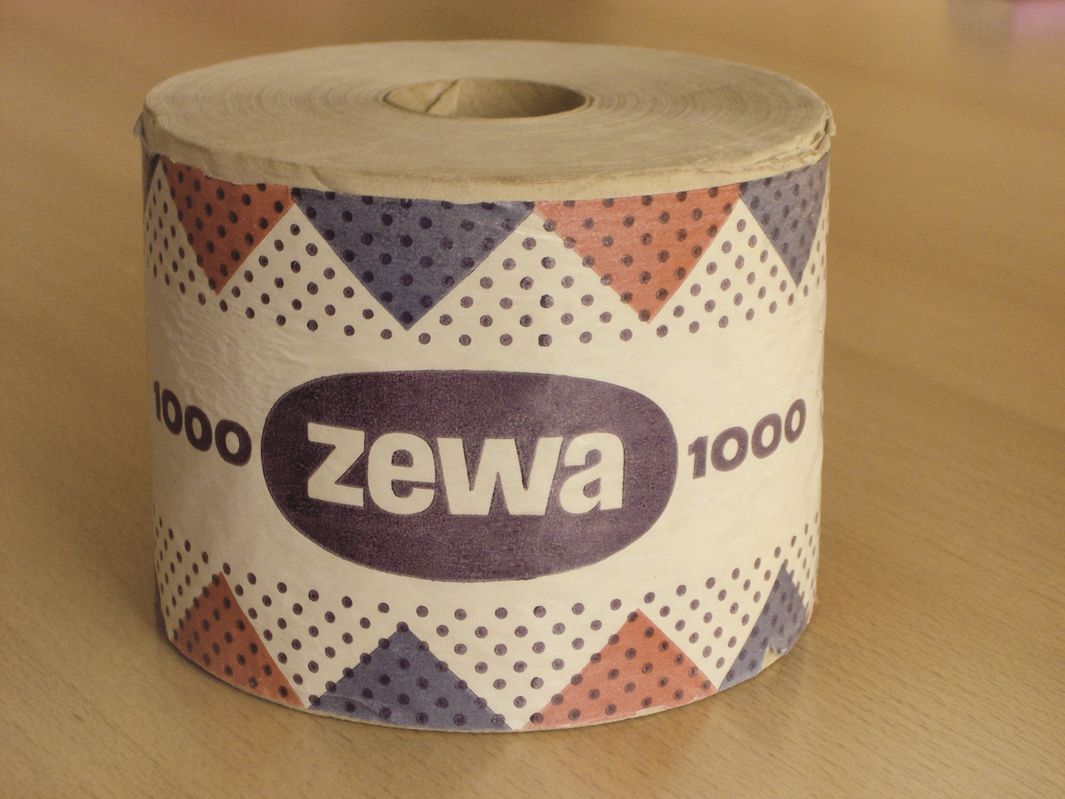 Zewa, SCA’s brand of toilet paper and household towels, is celebrating 50 years on the German market. The brand name originates from the initial manufacturer’s name “ZEllstoffabrik WAldhof” in Mannheim where the Zewa range is still produced by SCA.